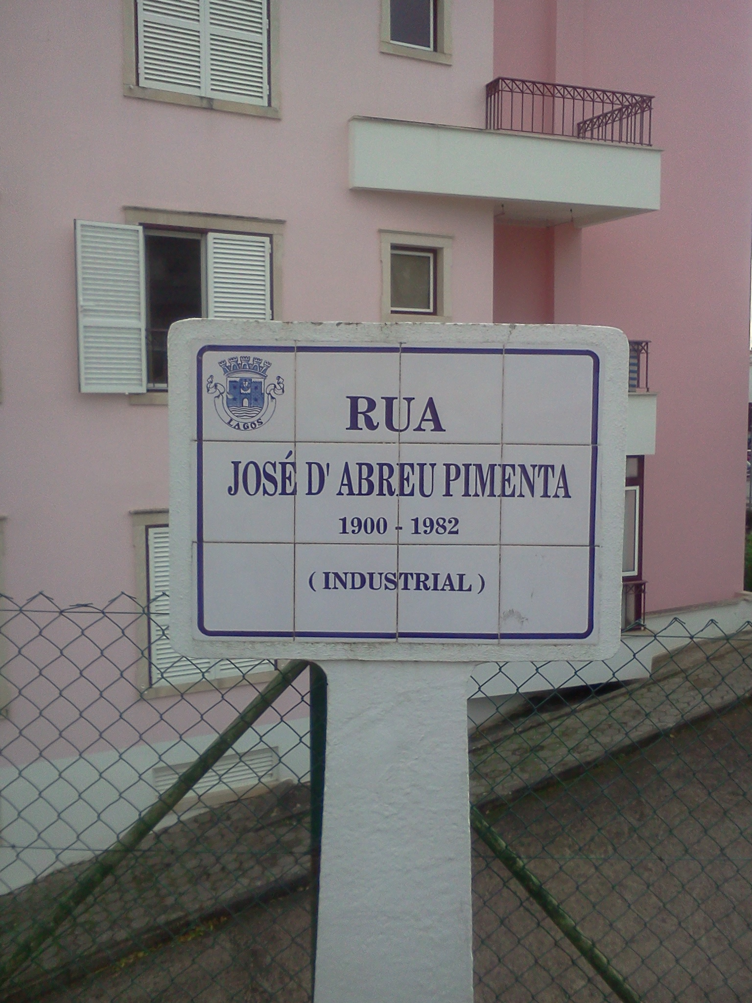 Street sign of Rua José de Abreu Pimenta, in the city of Lagos, in southern Portugal.